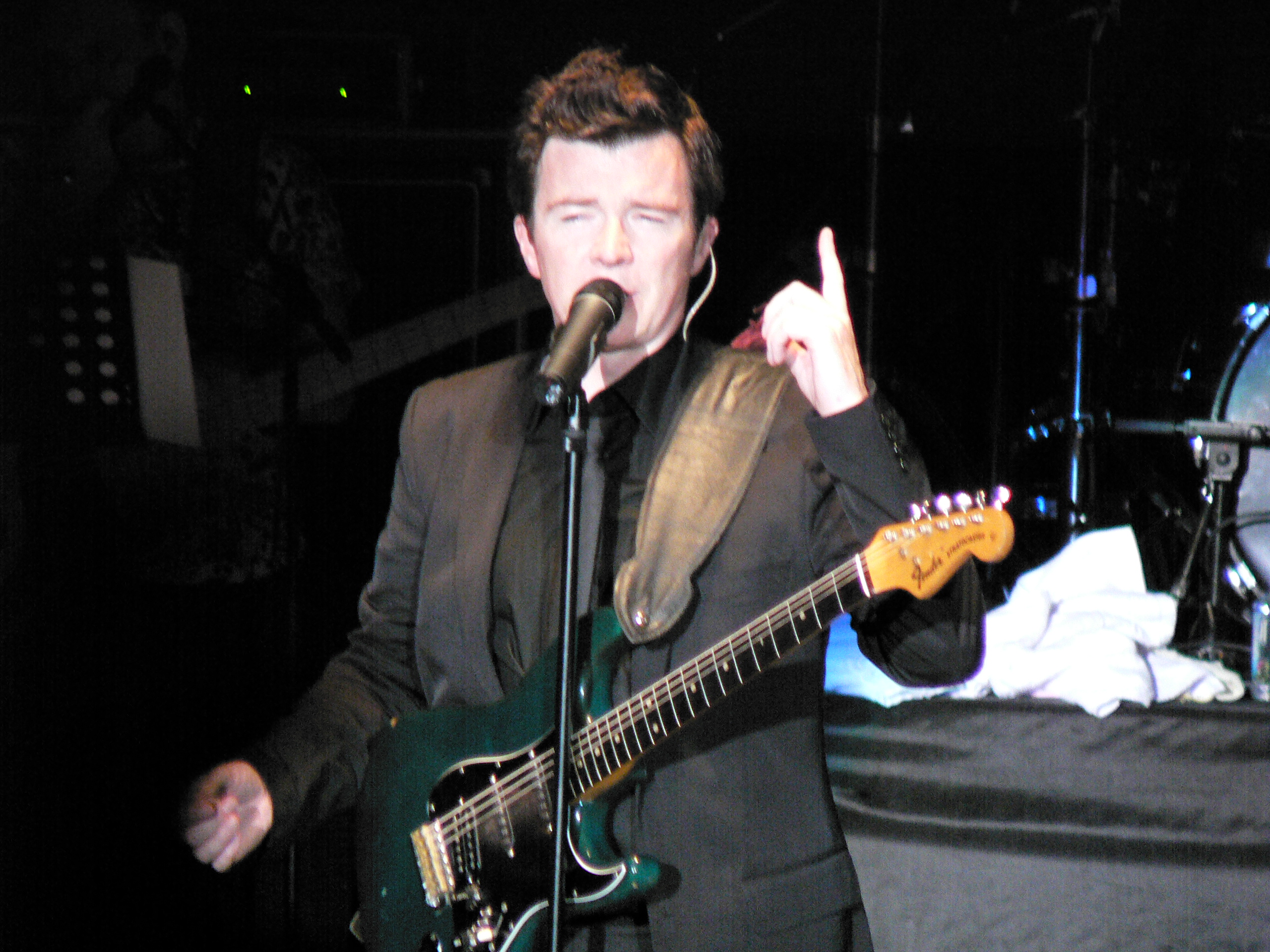 Rick Astley Live in Singapore